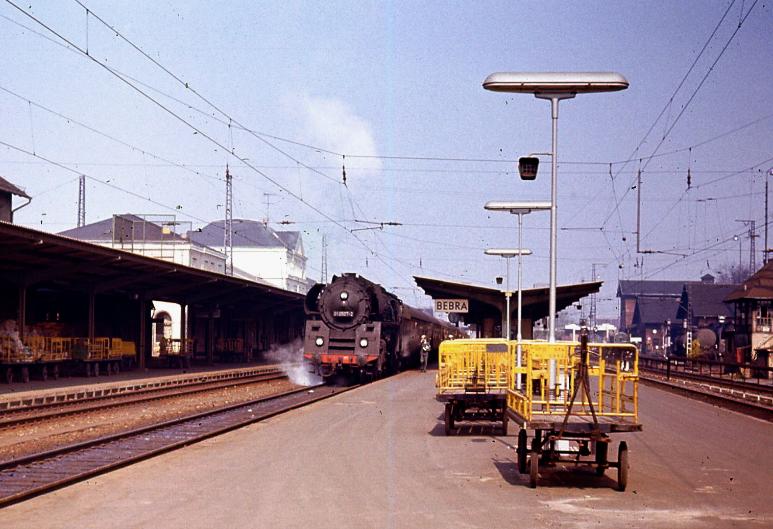 An express leaves Bebra for the east